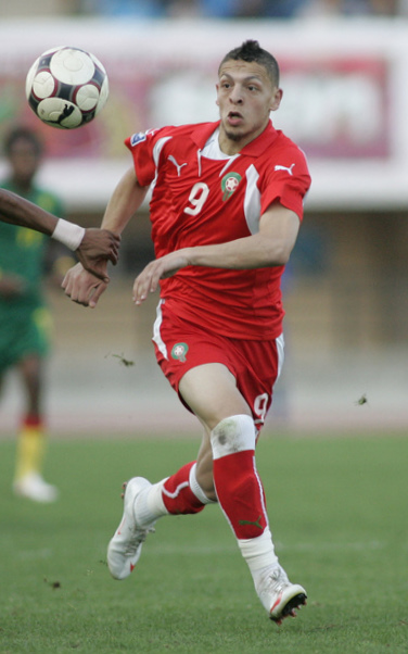 Moroccan football player Abdessalam Benjelloun during match against Cameroon